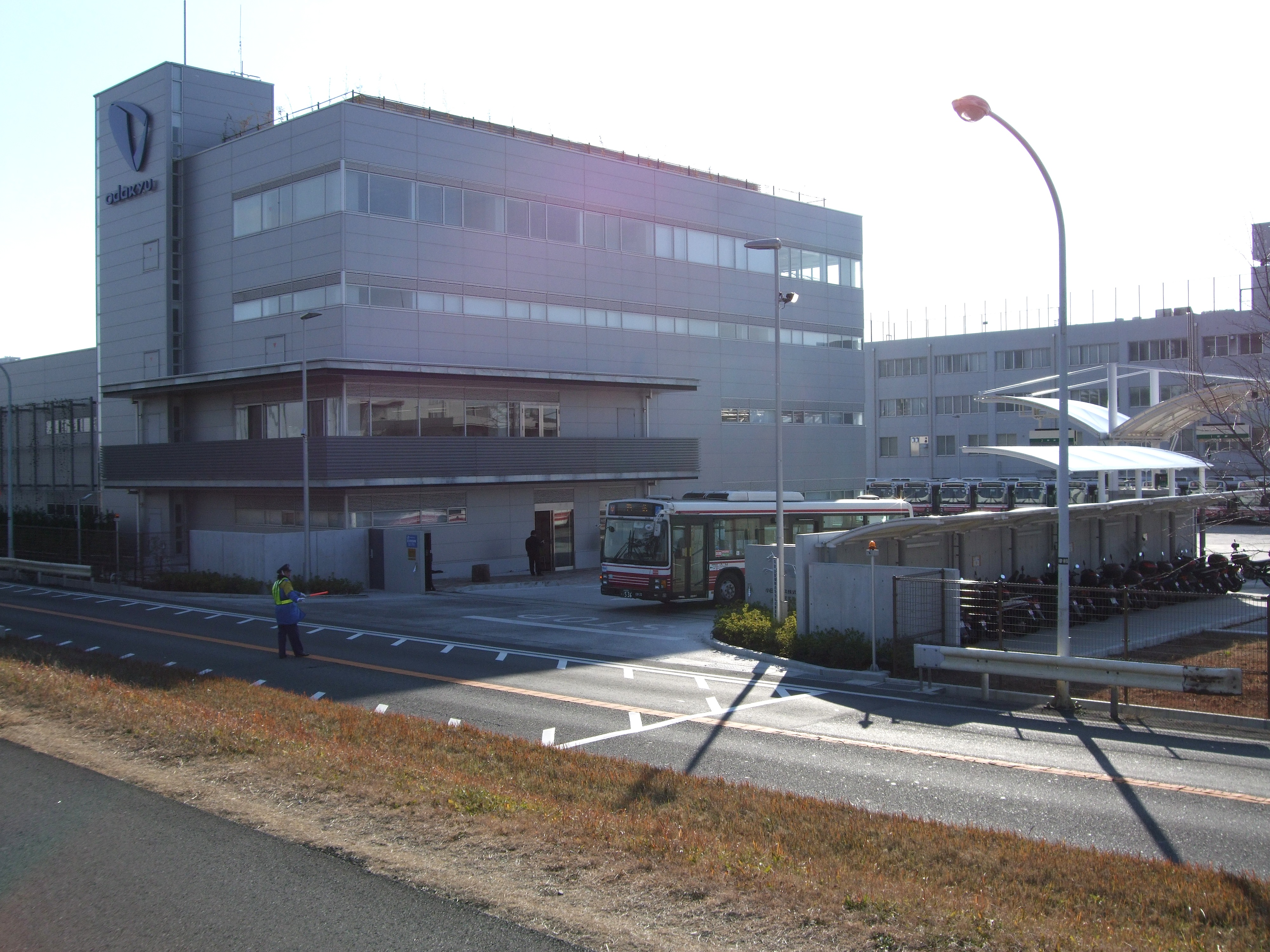 Odakyu Bus Noborito Depot